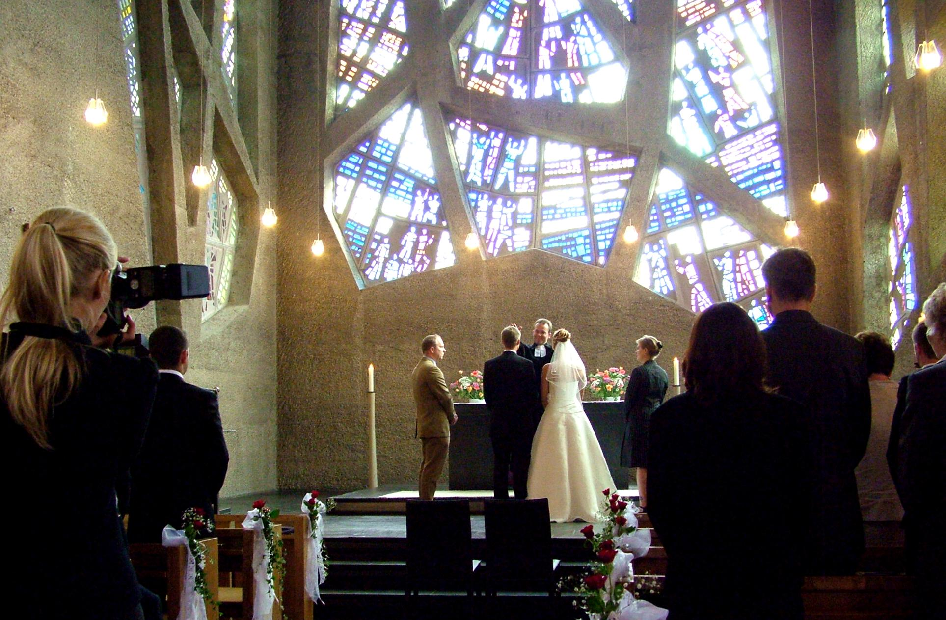 Marriage ceremony in a lutheran church (Reformationskirche Cologne-Marienburg, Germany)